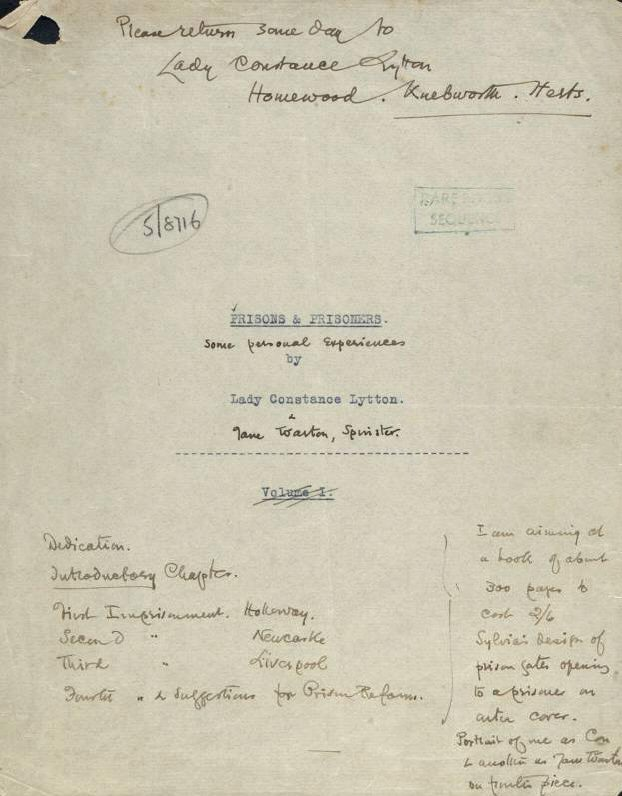 Draft manuscript of PRISONS & PRISONERS, SOME PERSONAL EXPERIENCES published worldwide in 1914